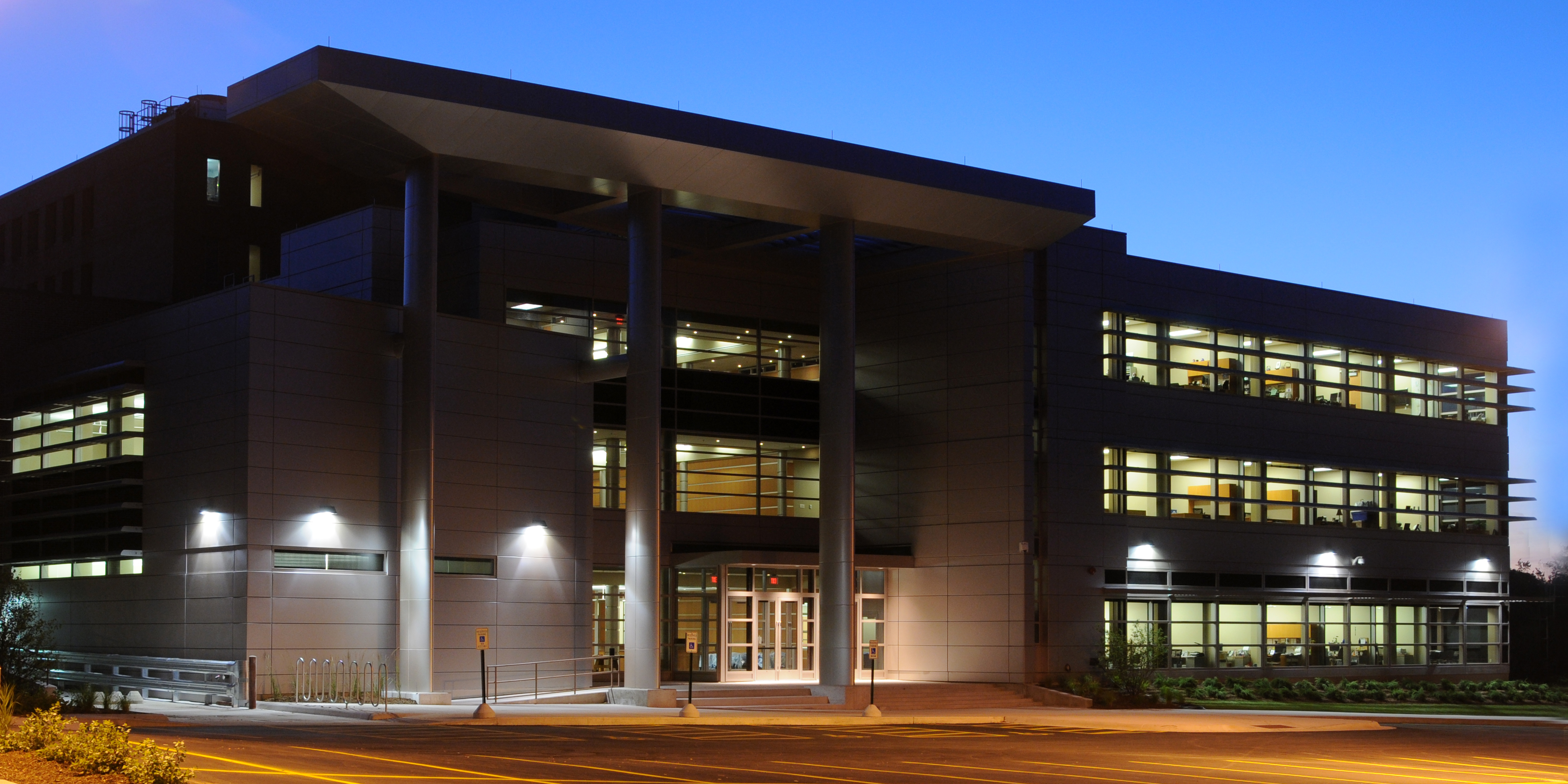 University of Illinois at Chicago College of Pharmacy building at University of Illinois Health Sciences Center, 1601 Parkview Avenue, in Rockford, Illinois.